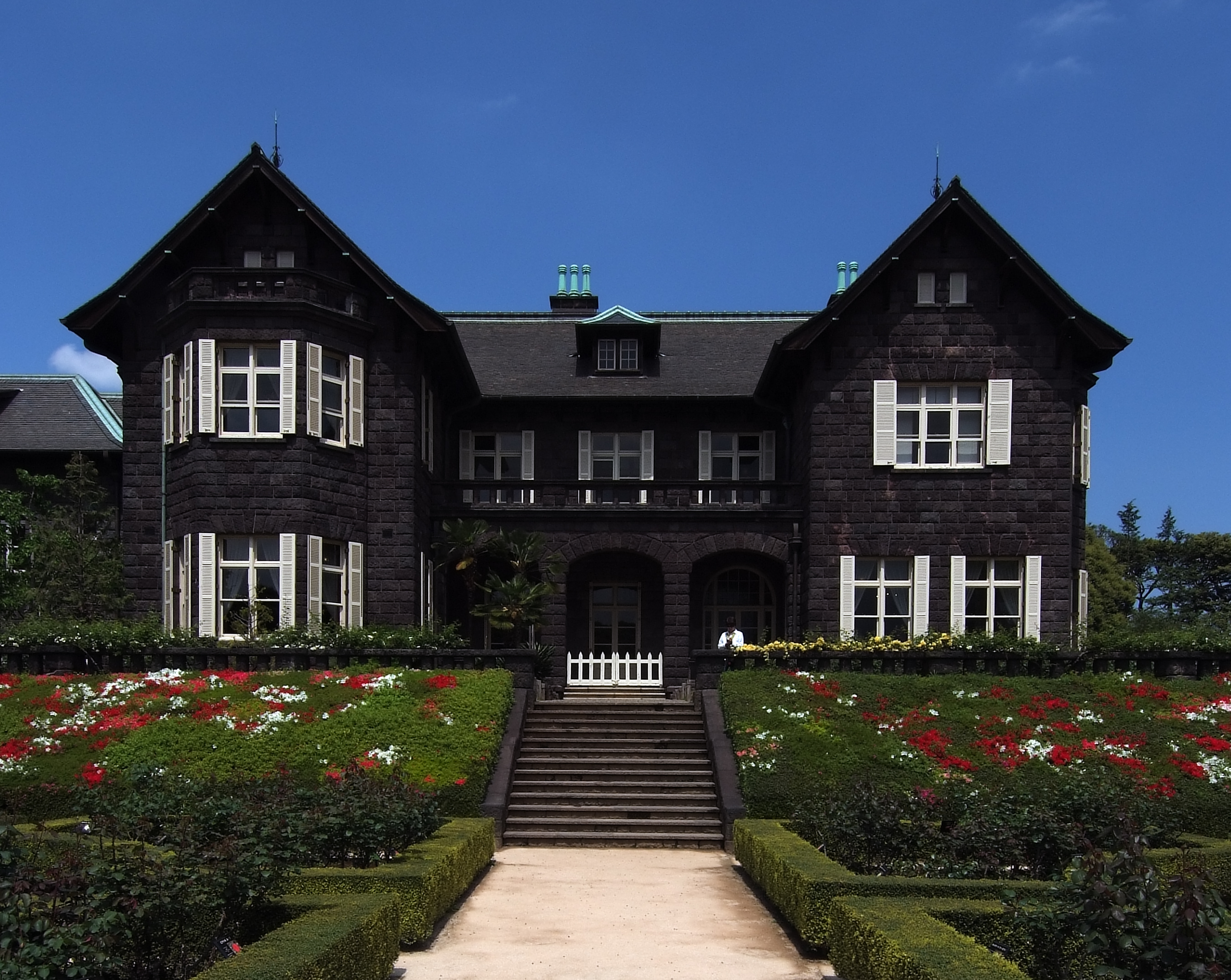 Kyu-Furukawa Tei (House), at Kita-ku Tokyo Japan, design by Josiah Conder in 1917.